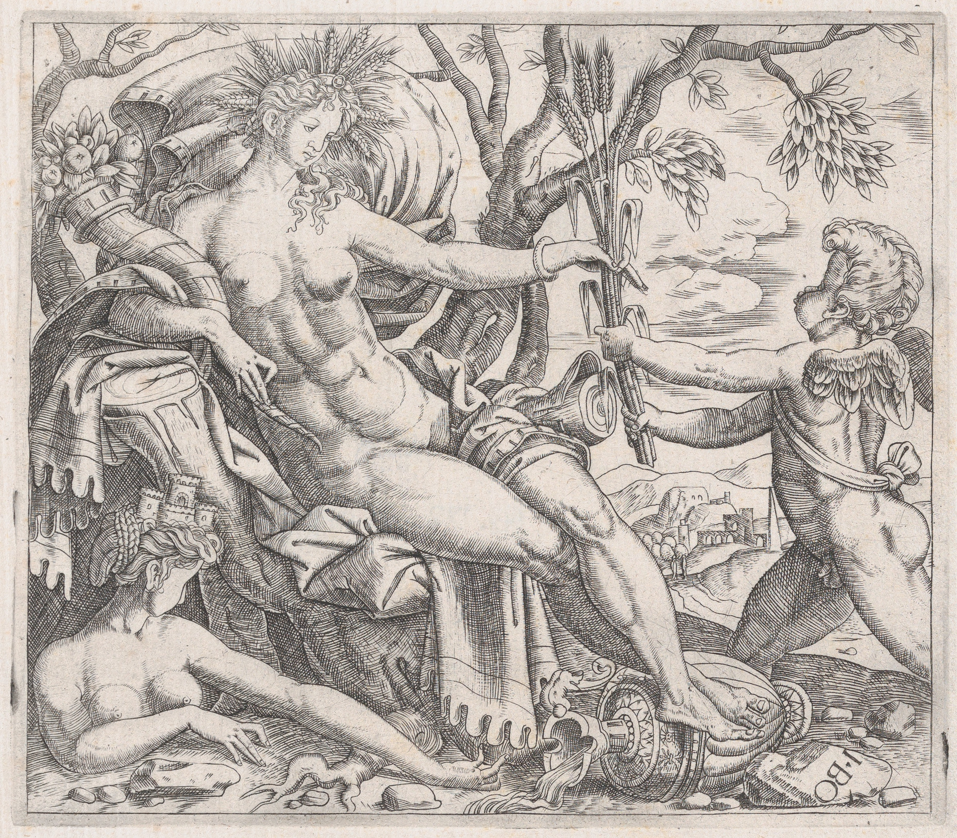 Print; Prints